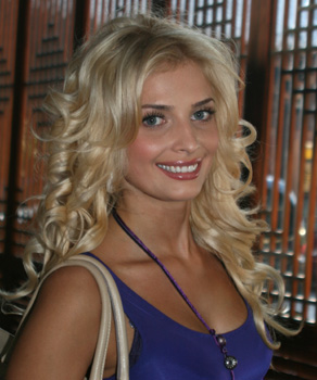 Miss Russia 2006 Tatiana Kotova. Photo taken in Miss World 2007, Sanya 1/12/07.